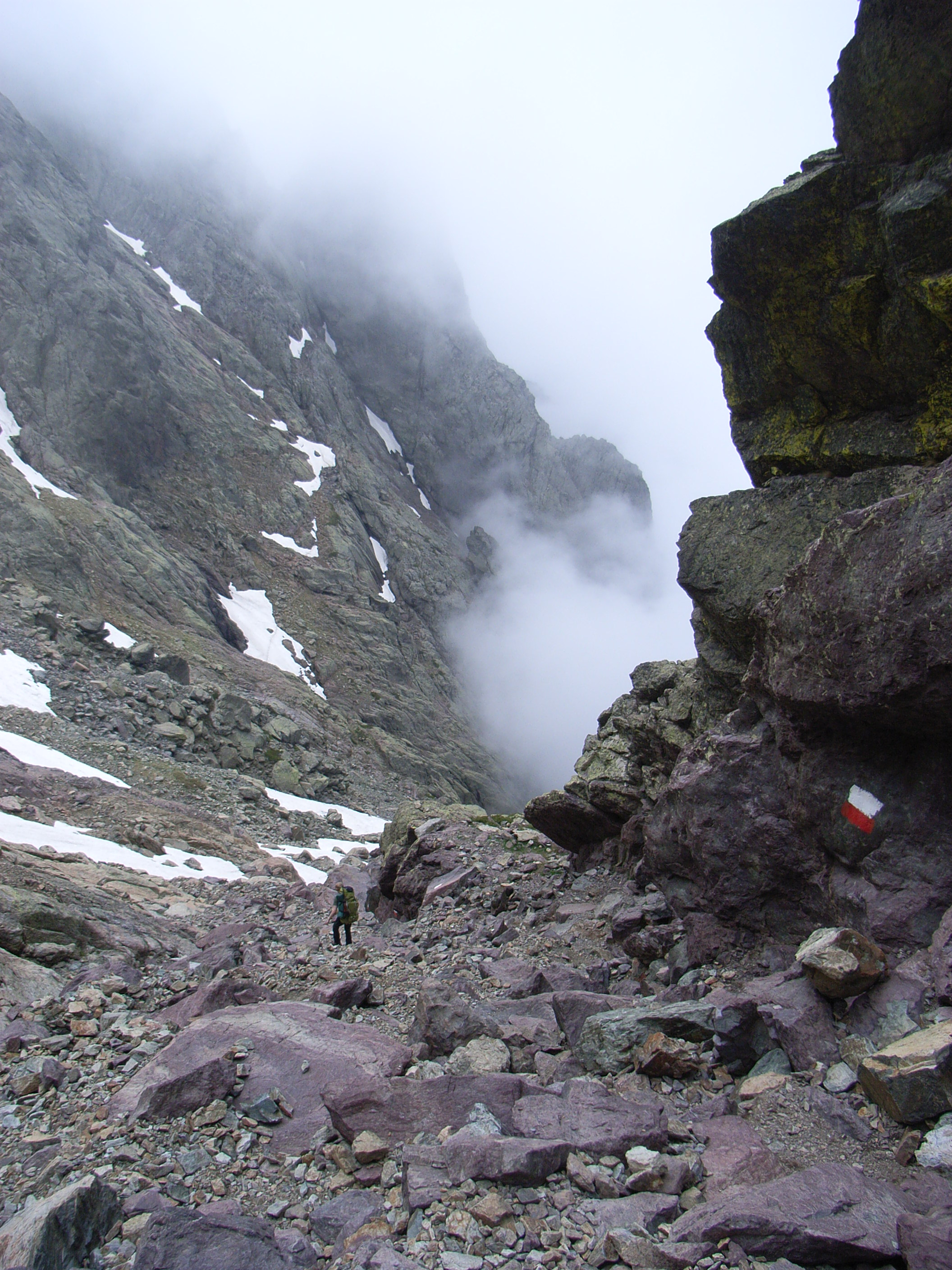 Clouds rolling into Cirque de la solitude on the GR 20, Corsica